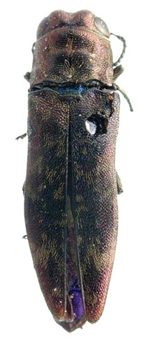 Agrilus evinadus Gory & Laporte 1839, lectotype.